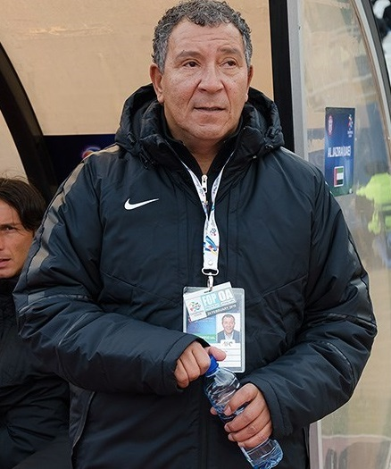 Henk ten Cate, head coach of Al-Jazira, before AFC Champions League match against Tractor Sazi, Tabriz